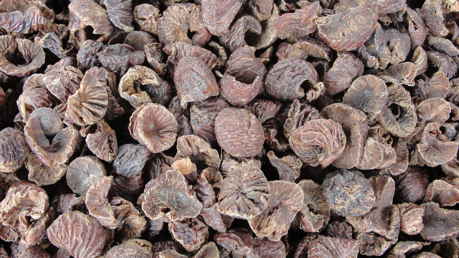 The Areca nut is the seed of the Areca palm (Areca catechu), which grows in much of the tropical Pacific, Asia, and parts of east Africa. It is commonly referred to as "betel nut" as it is often chewed wrapped in betel leaves.